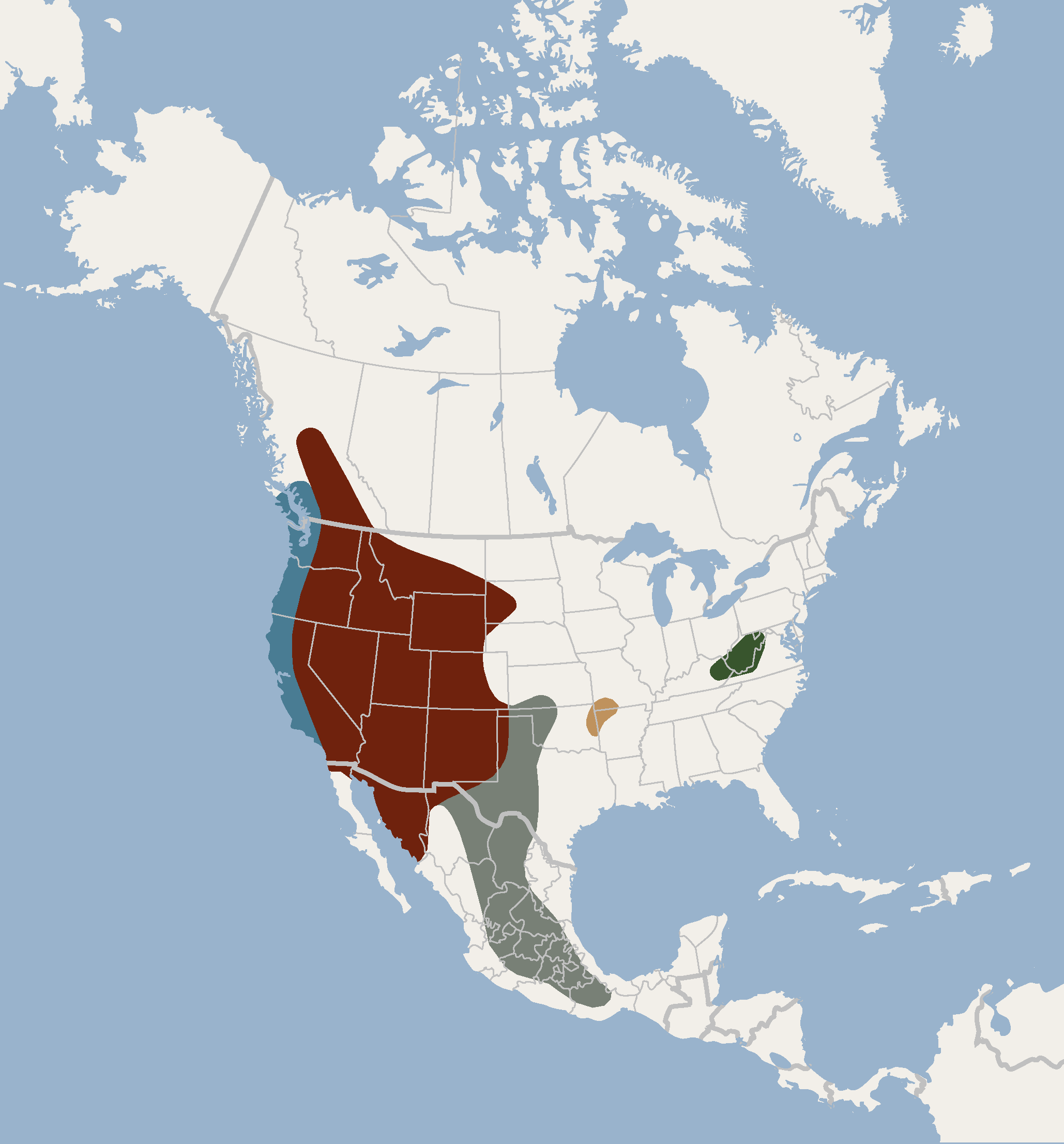 According to